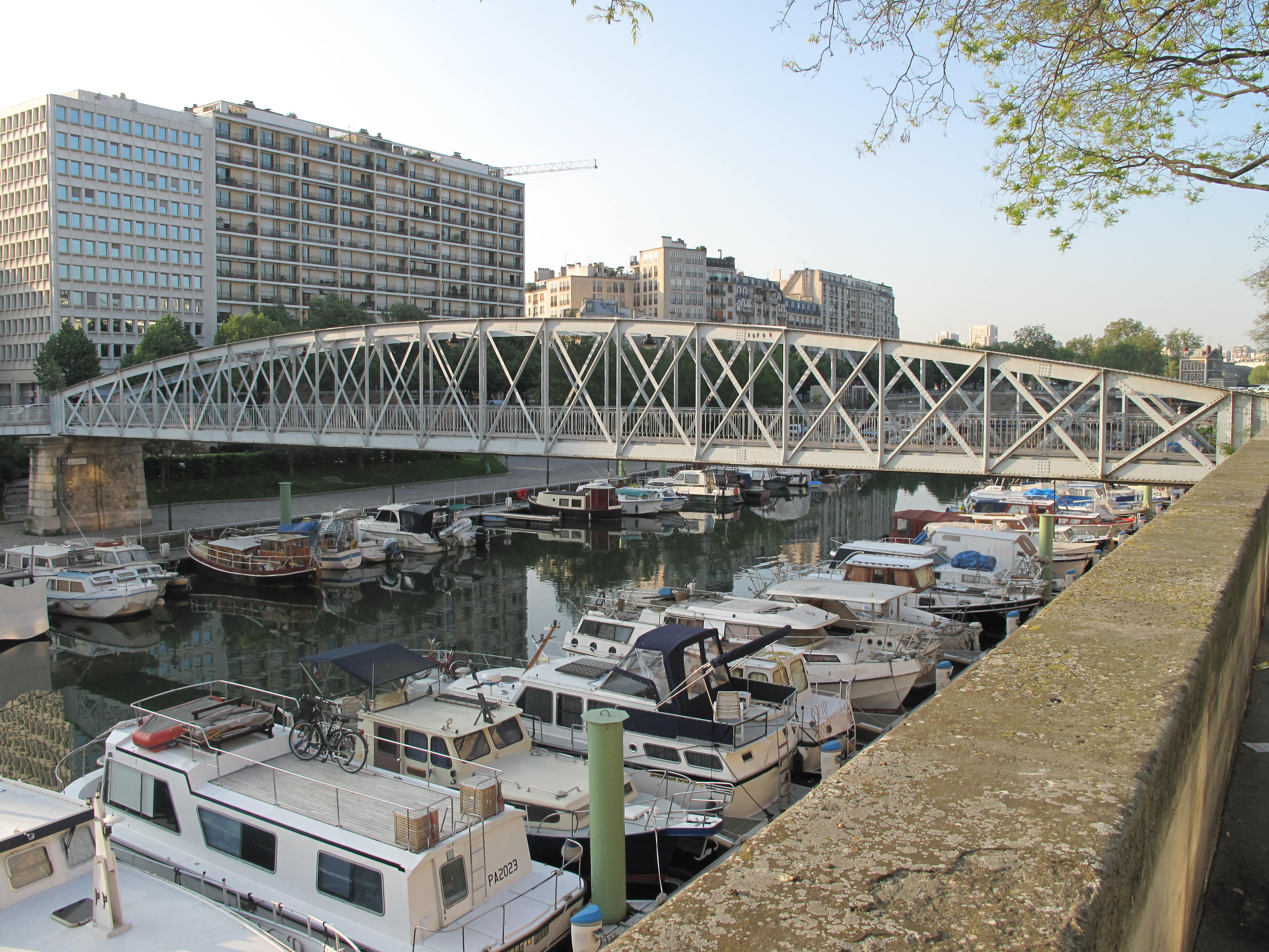 The gateway Mornay, above the port of the Arsenal. Paris 4th arr.